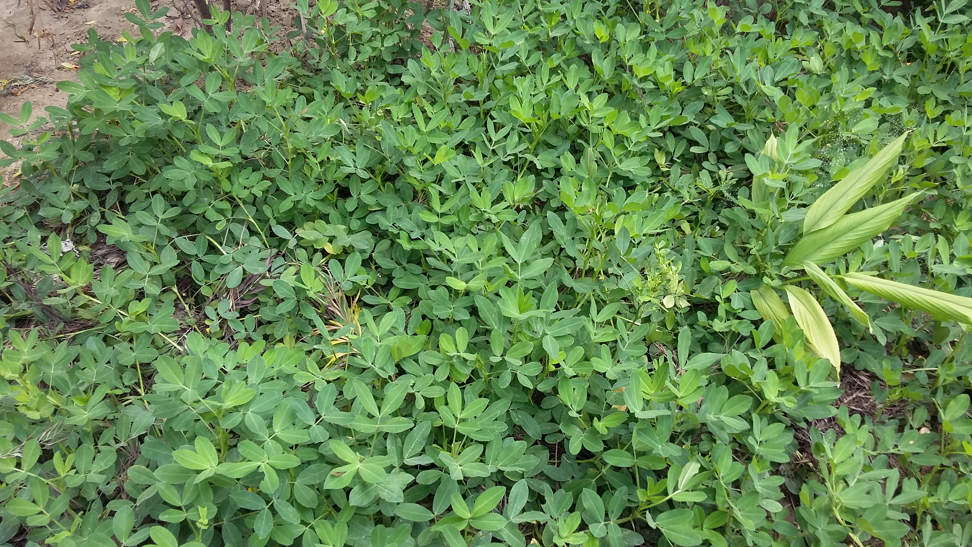 मूंगफली